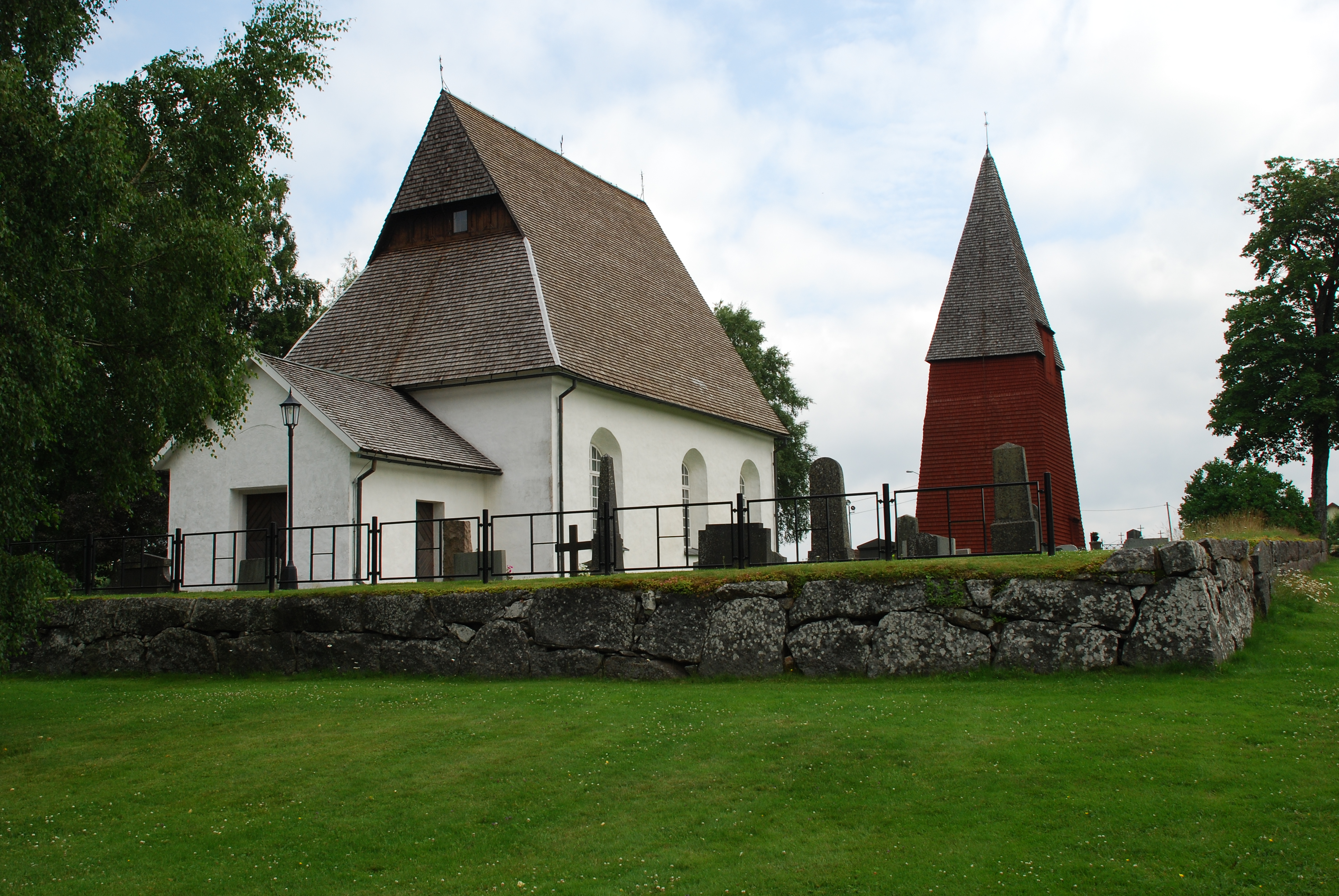 The church (built 1695) and clocktower of Härlöv in Småland